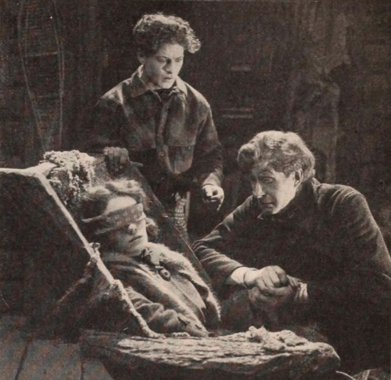 Still from the American drama film Snowblind (1921) with Pauline Starke, Cullen Landis, and Russell Simpson, on page 89 of the June 4, 1921 Exhibitors Herald.